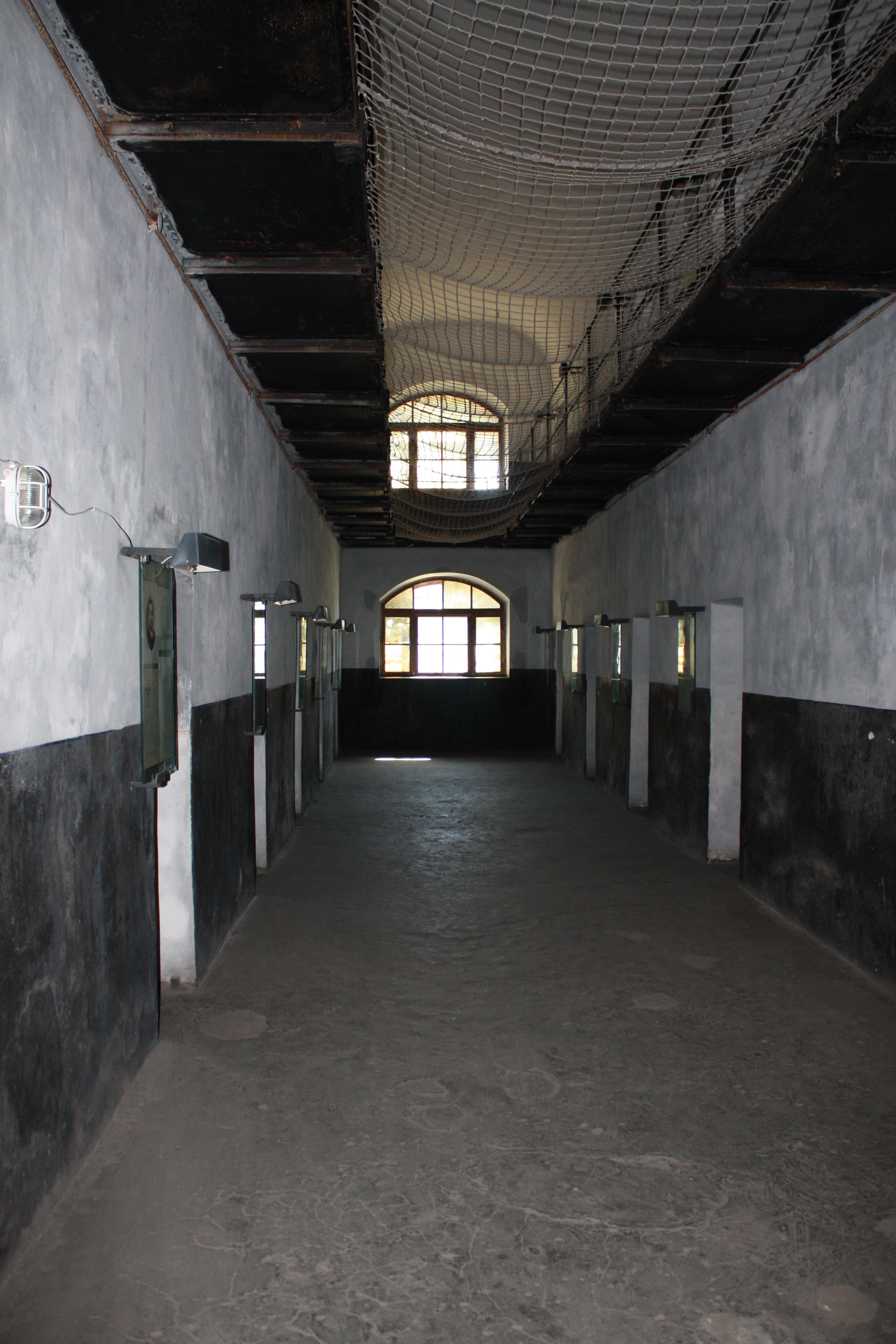 Prison Fortress Nut. View to the jails